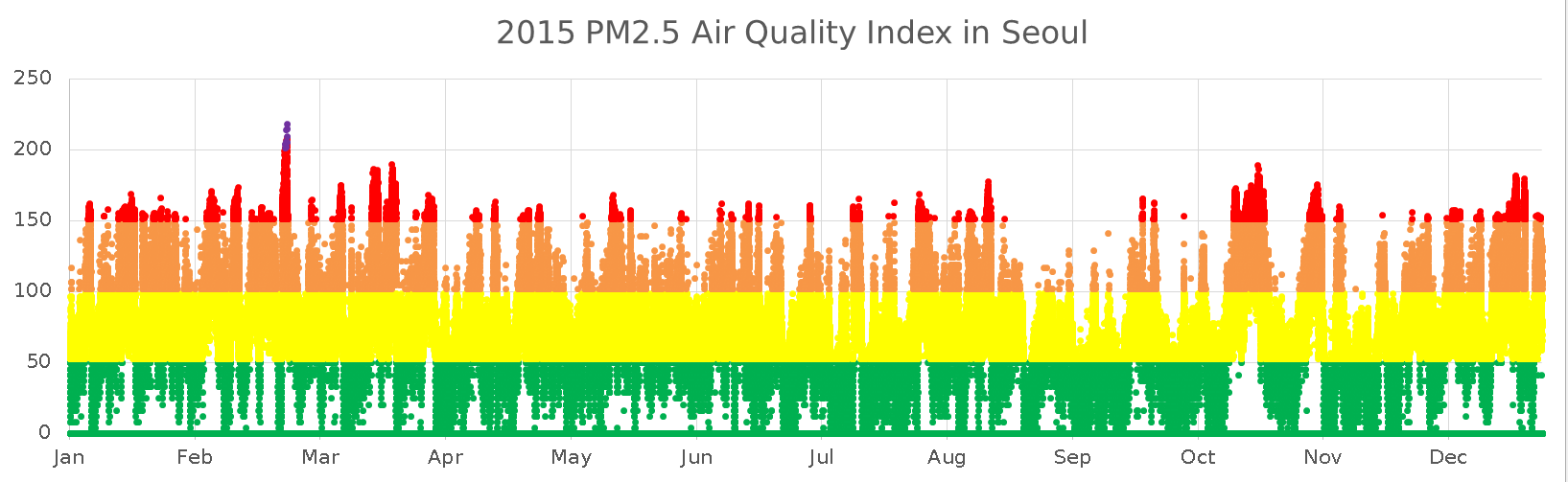 2015 PM2.5 Air Pollution Index in Seoul (hourly average data) wide version Very Unhealthy Unhealthy Unhealthy for sensitive groups Moderate Good